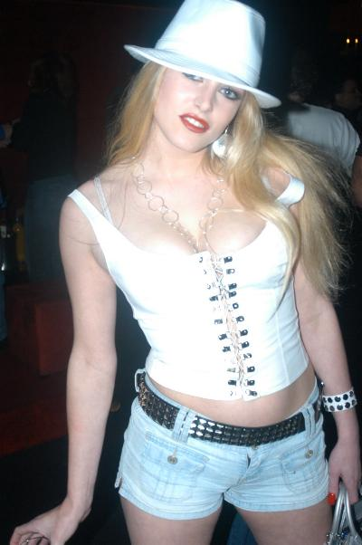 Estelle at April Storm's Birthday Party, Jan 26, 2006